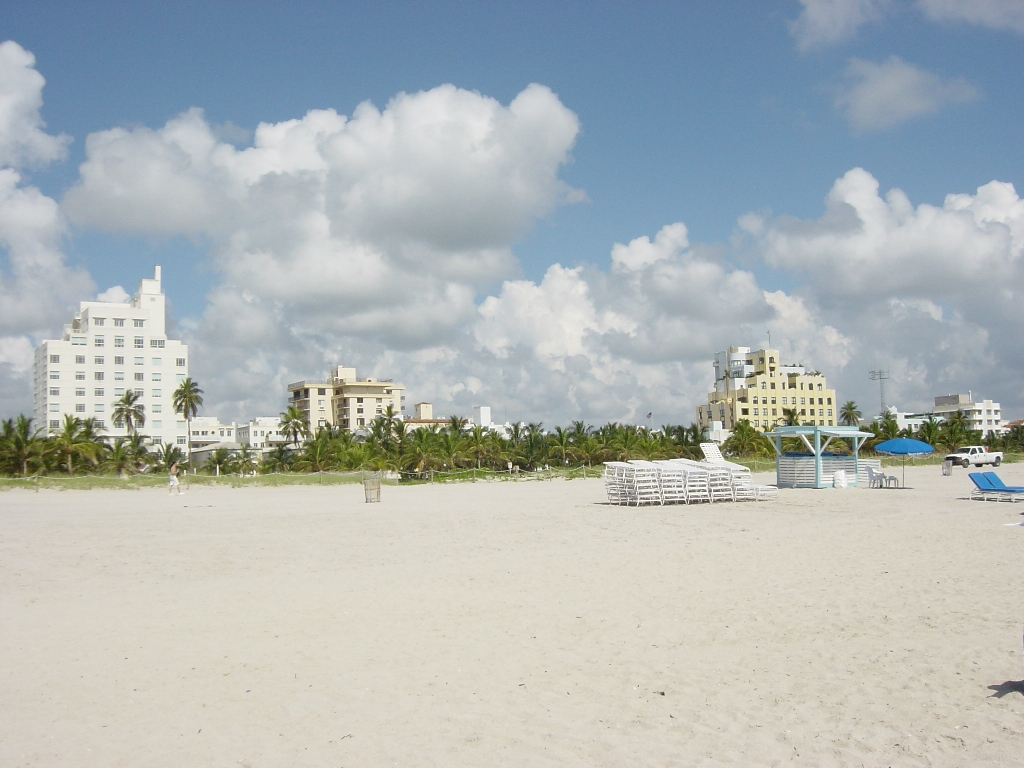 Miami Beach, Florida, USA